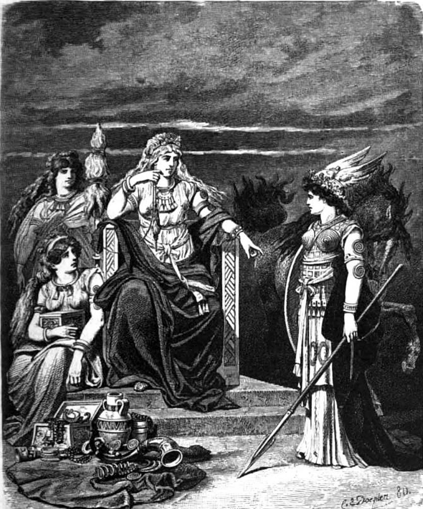 Frigg und ihre Dienerinnen. Frigg and her servants. The one on the right is presumably Gná, whom Frigg sends on errands. Behind her is presumably her horse, Hófvarpnir. The one sitting beside Frigg must be Fulla, who protects Frigg's eski (box). The wand beside Frigg seems to be similar to the one she carries in Image:Frigg als Ostara.jpg.